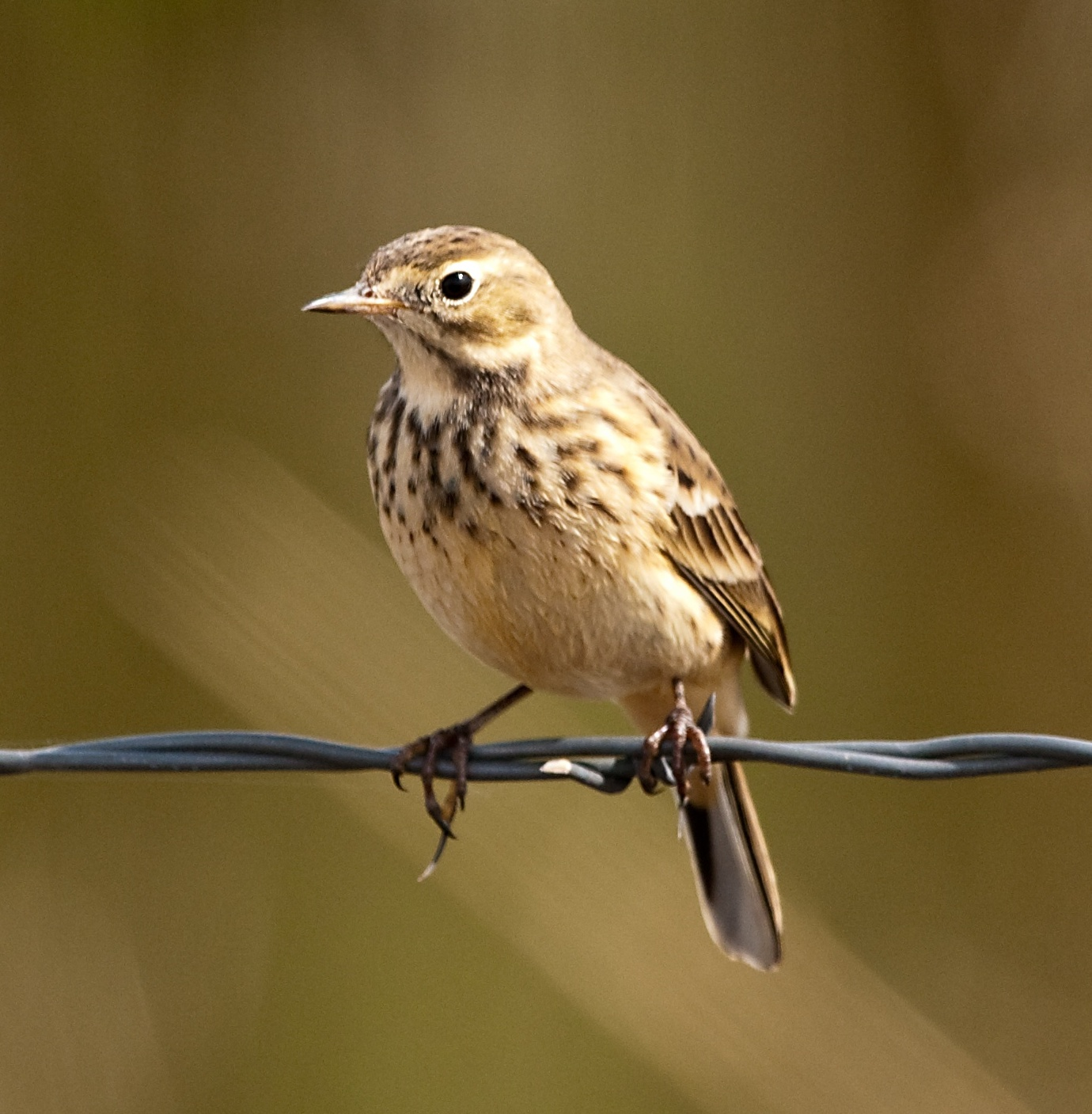 A Buff-bellied Pipit in Harney County, Oregon, USA. This subspecies, the nominate, is also known as the American Pipit.